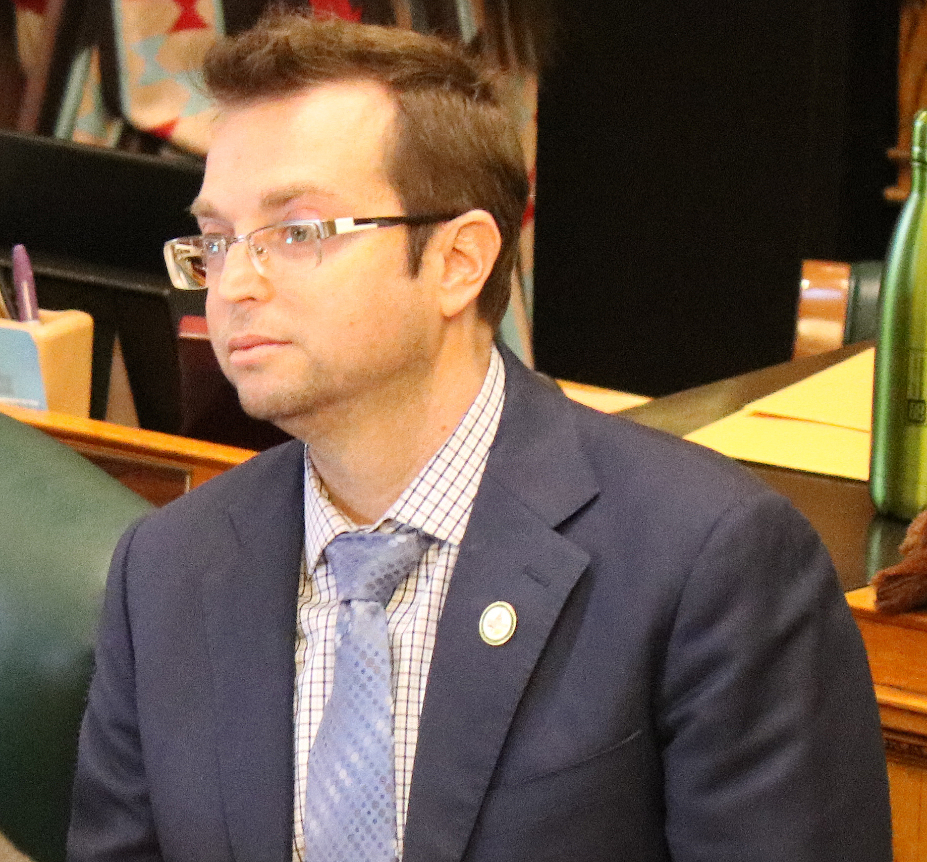 Steven Woodrow, a politician from Colorado.